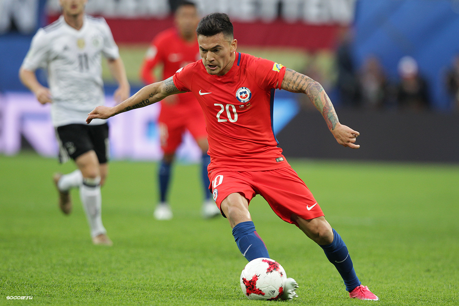 Chile - Germany, 2 Jul 2017